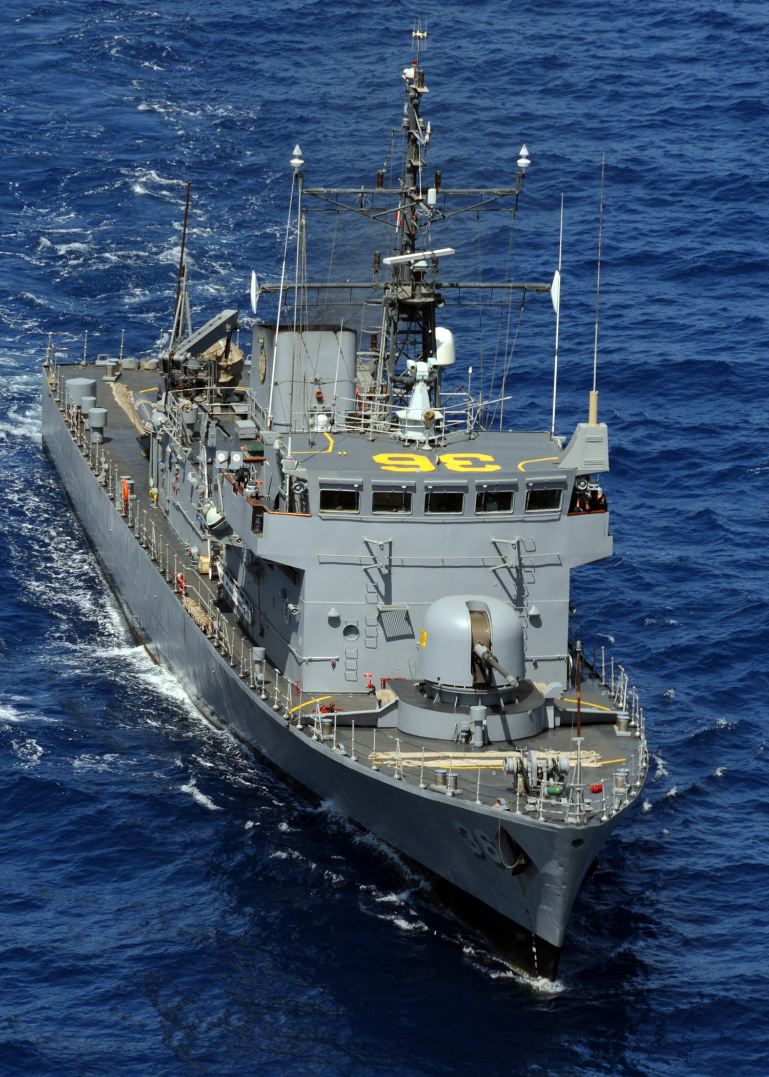 SOUTH CHINA SEA (March 14, 2010) - Republic of the Philippines Navy ship BRP Apolinario Mabini (PS 36) steams in formation for a photography exercise as a part of exercise Balikatan 2010 (BK 10). Essex, commanded by Capt. Troy Hart, is part of the forward-deployed Essex Amphibious Ready Group and is participating in BK 10, an annual, bilateral exercise designed to improve interoperability between the U.S. and Republic of the Philippines. (U.S. Navy photo by Mass Communication Specialist 2nd Class Mark R. Alvarez/Released)